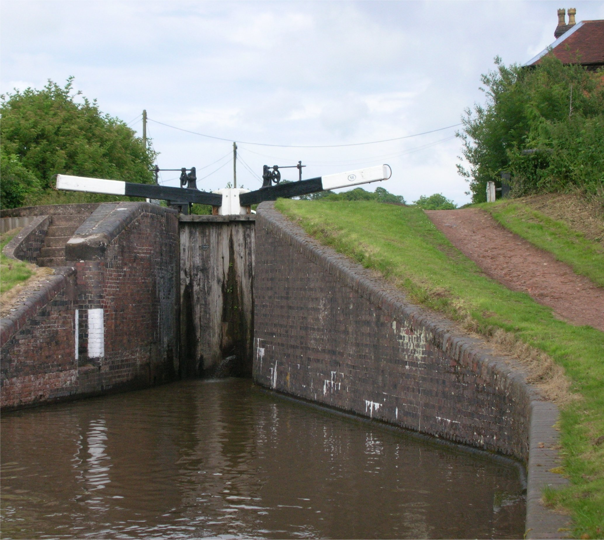 The top lock (number 58) and cottage of Tardebigge Locks on the Worcester and Birmingham Canal at Tardebigge, Worcestershire, England. The lock, which has an unusually high rise of 11 feet, was built to replace a vertical boat lift which was unreliable. Photographed by me 24 June 2007. Oosoom